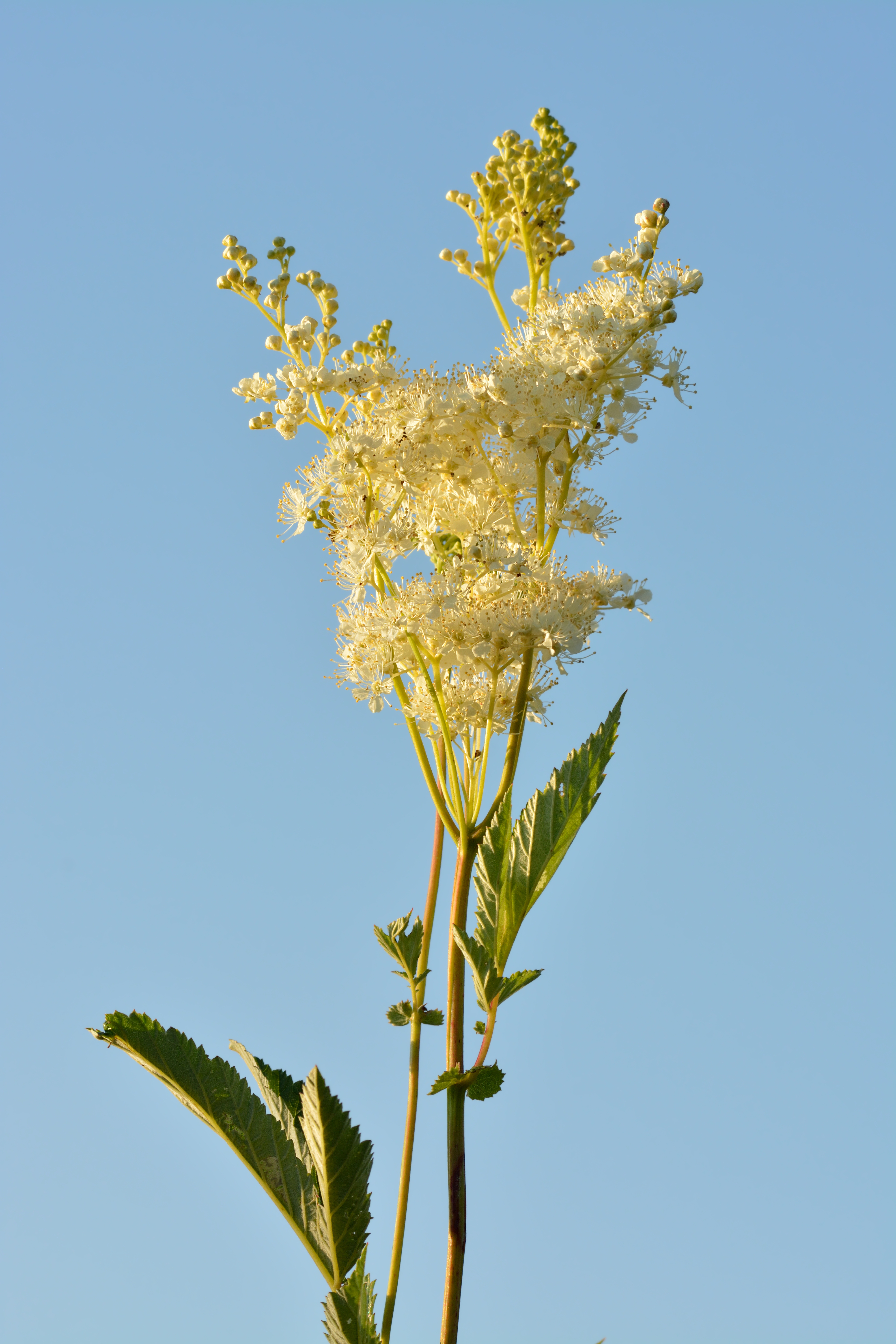 Meadowsweet (Filipendula ulmaria). Keila, Northwestern Estonia.